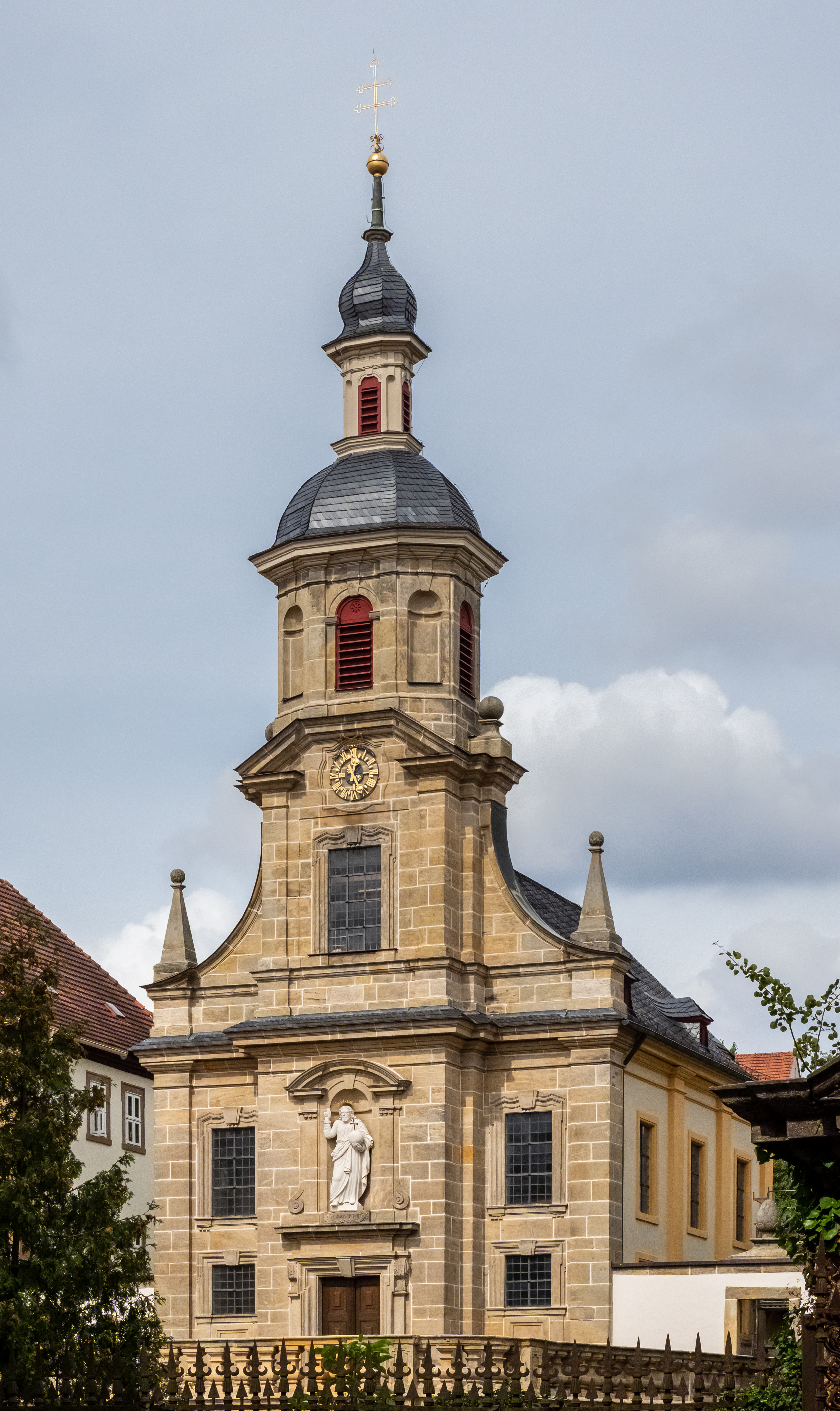 Saint Philip Church in Gereuth